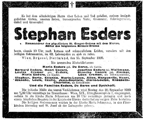 death notice: Stefan Esders (1852-1920)